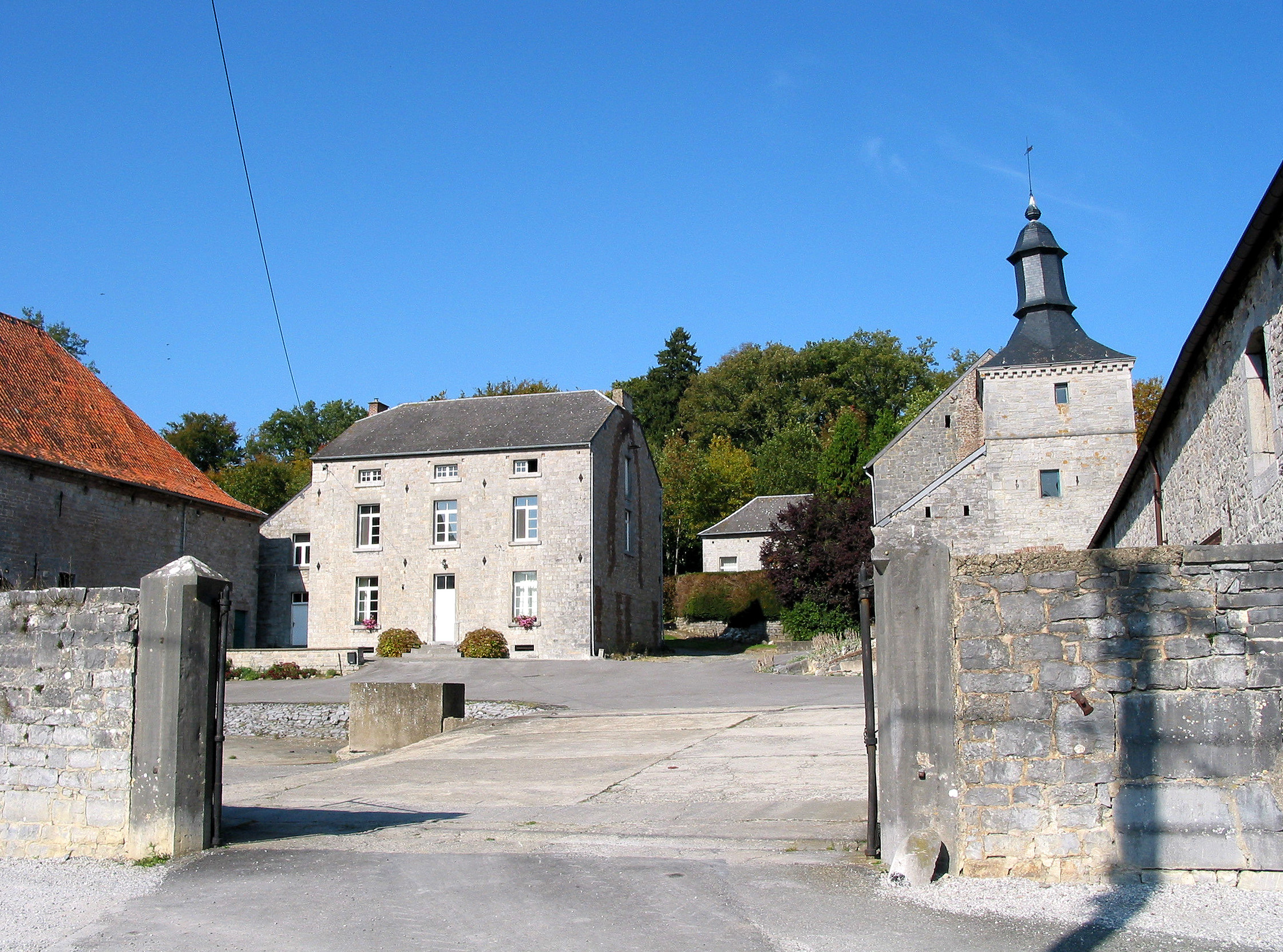 Weillen (Belgium), the farm of the castle.